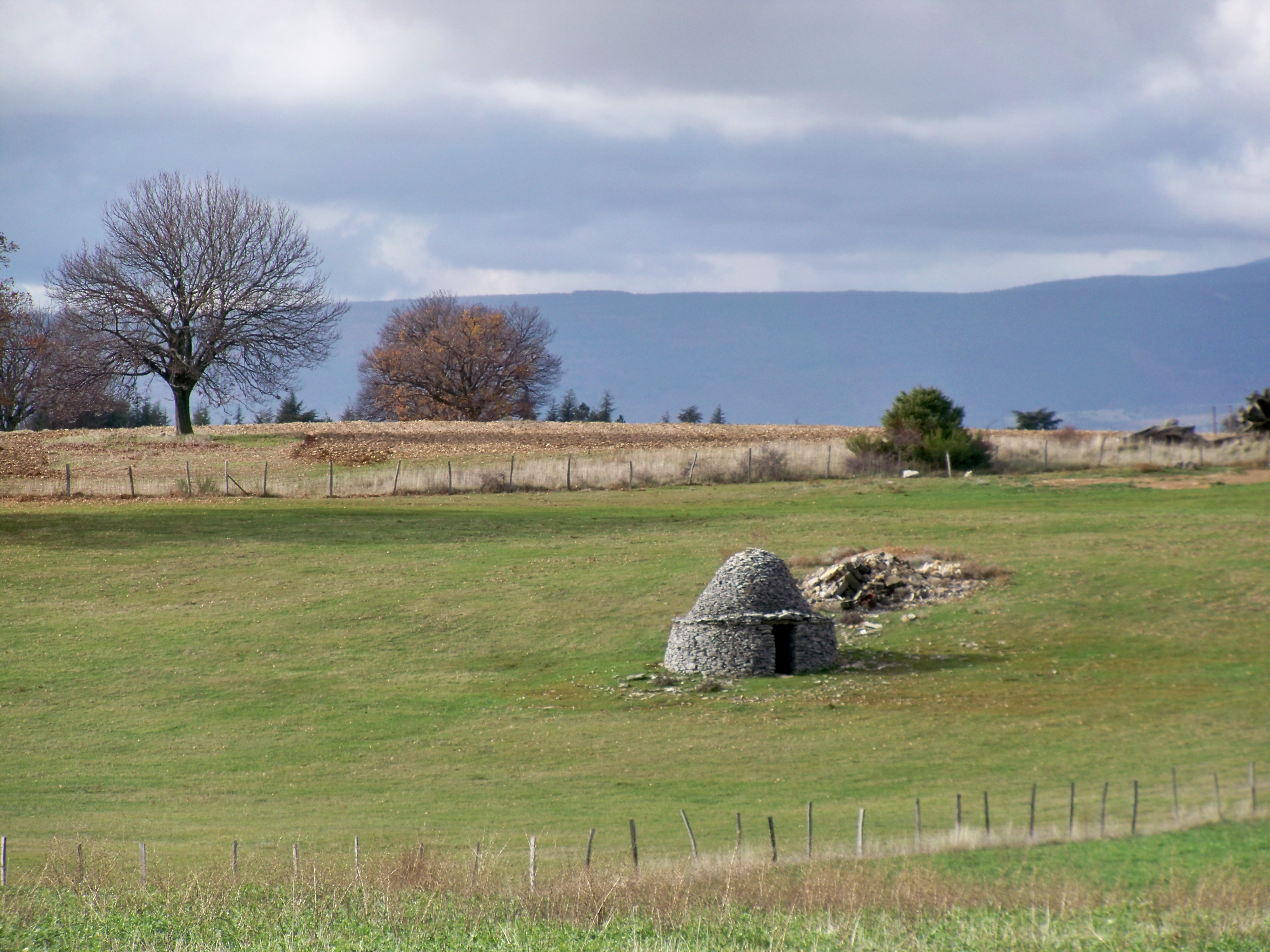 Dry stone hut going by the local name of cabanon pointu at Revest-du-Bion, Alpes-de-Haute-Provence, France